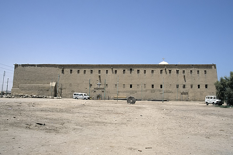 South side of the enclosure wall, White Monastery, governorate of Sohag, Egypt